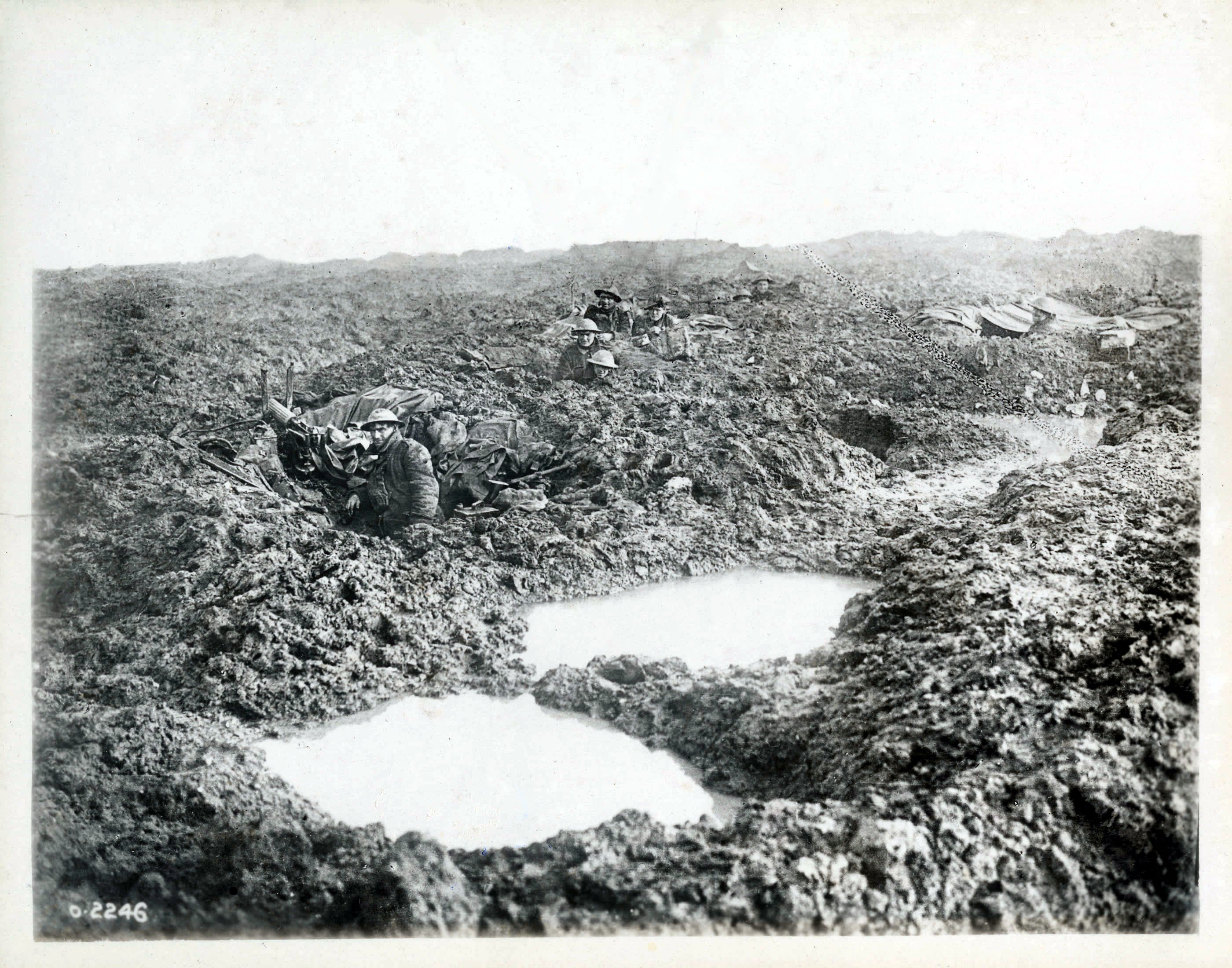 Troops of the Canadian 16th Machine Gun Company hold the line in atrocious conditions on the Passchendaele front in late October or early November, 1917 The machine-gunner closest to the camera is Private Reginald Le Brun Corporal Ronald Lebrun, the machine gunner at left, was the only survivor from this photograph